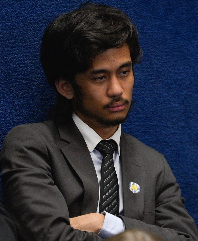 Kim Kataguiri no Senado Federal